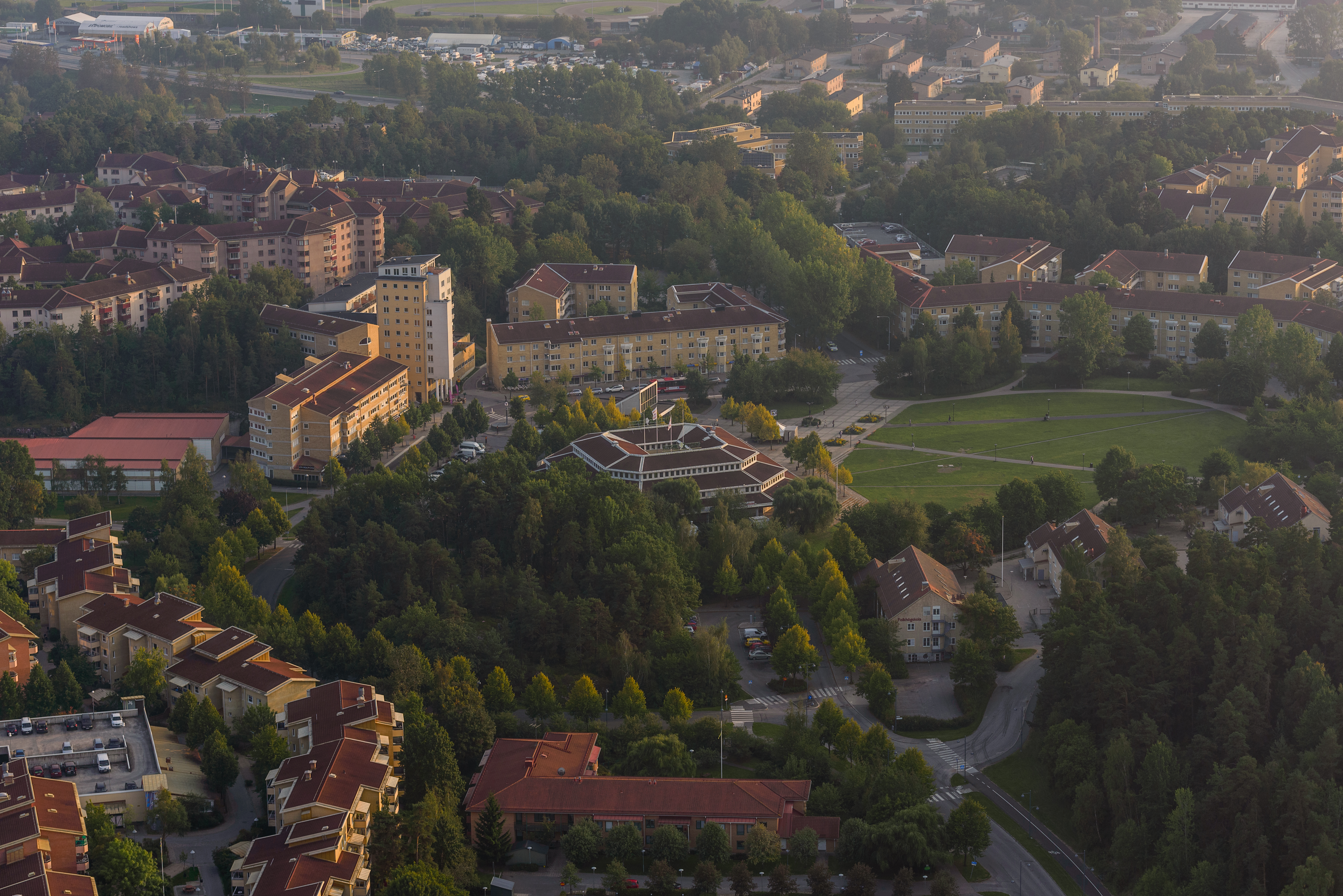 Rissne.